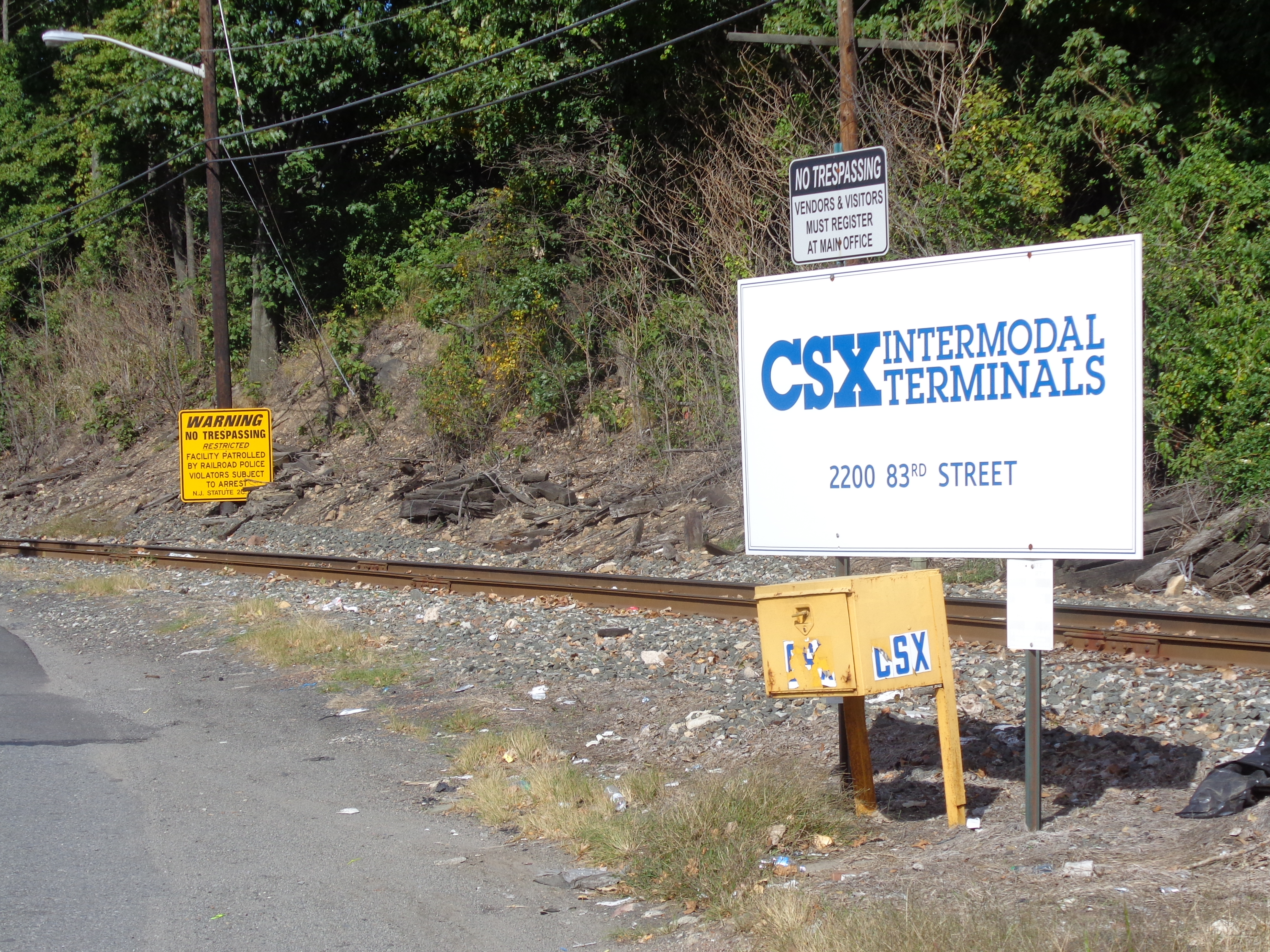 Little Ferry Yard: Entrance to rail yard in Babbitt, North Bergen leading to railyard in Ridgefield used by CSX and NYSW showing NYSW main line